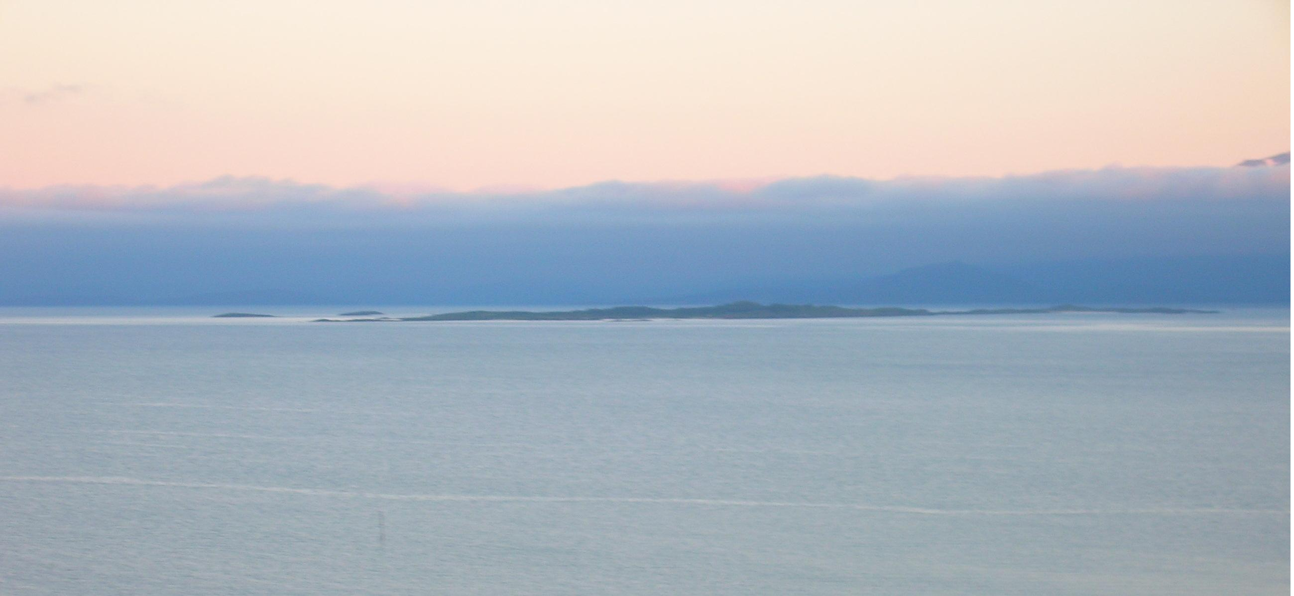 Island between Senja and Bjarkøy